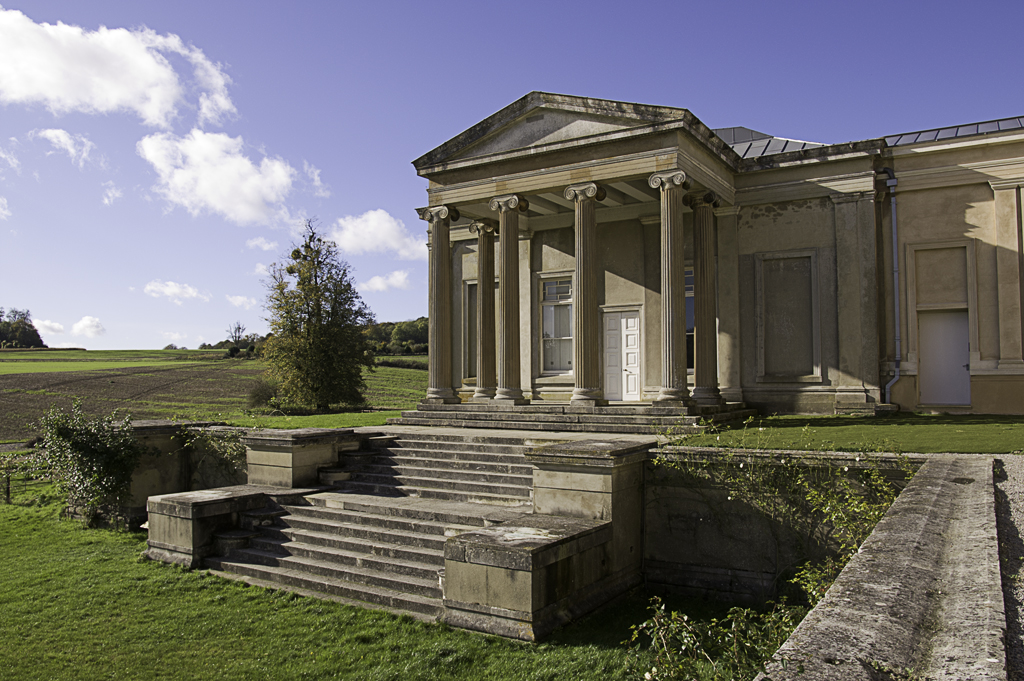 Former Orangery at The Grange, Northington, Hampshire, England